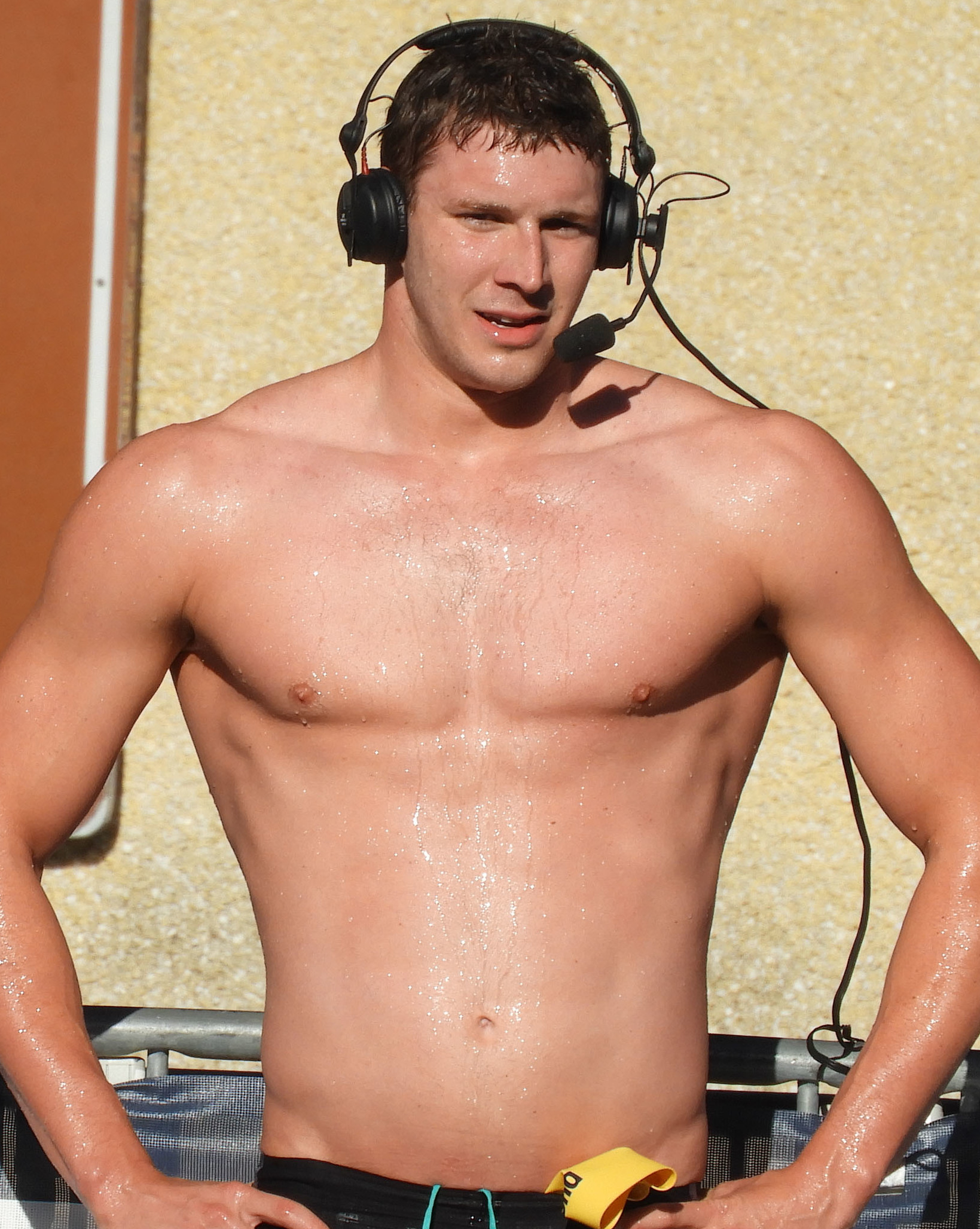 Ryan Murphy, Cal, after winning 200-meter backstroke